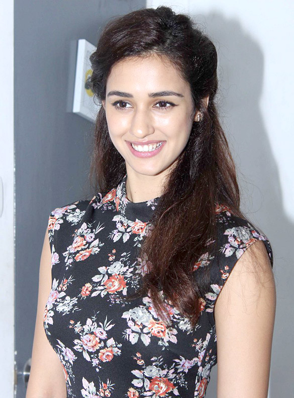 Disha Patani promotes ‘M.S. Dhoni – The Untold Story’ in Sep 26, 2016